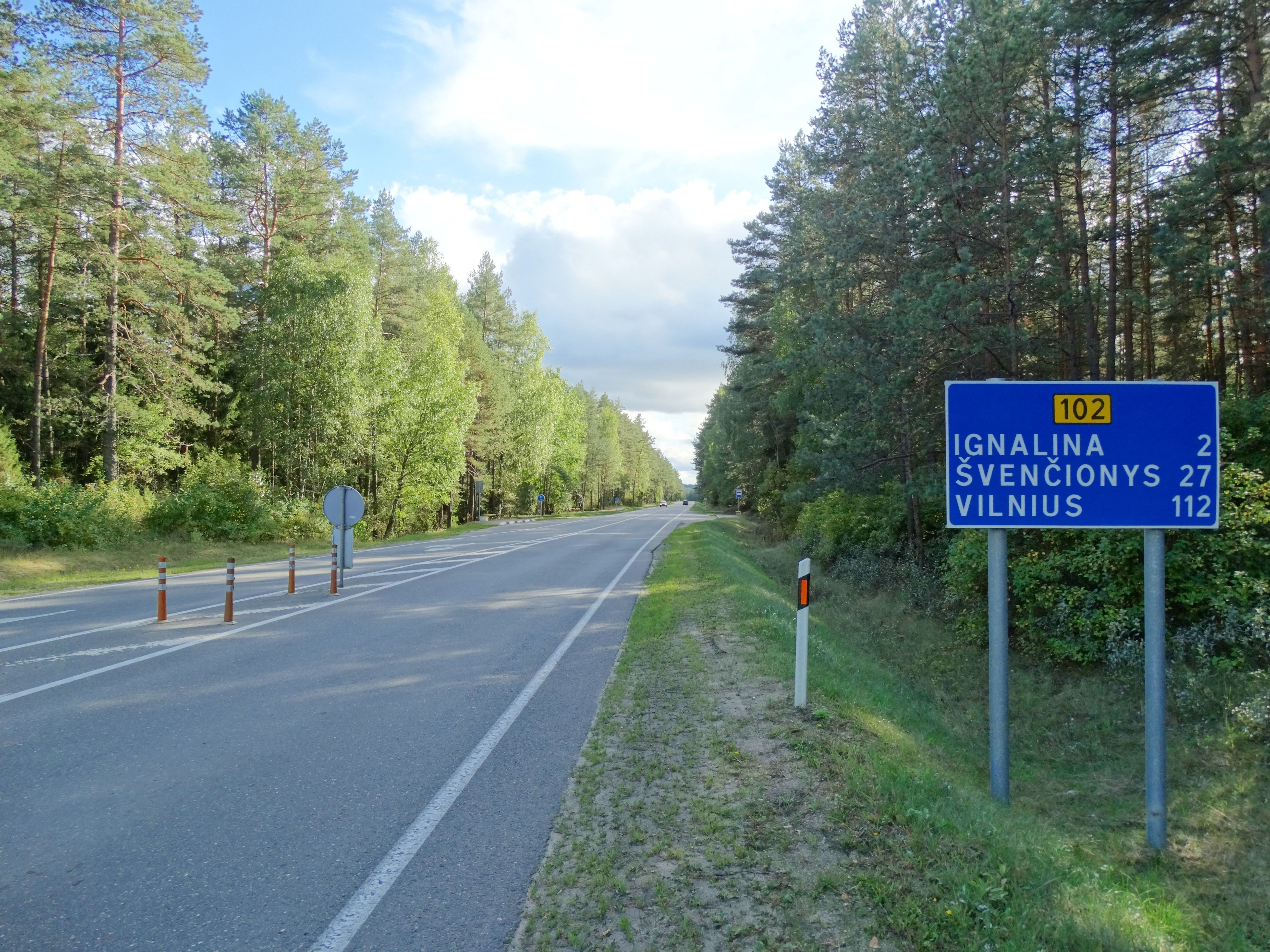 Road 102, by Ignalina, Lithuania